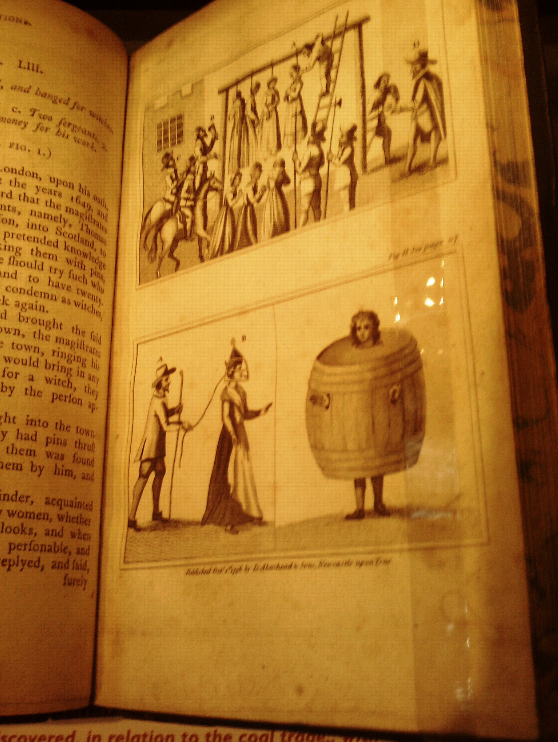 Hammer of the Witches is in the John Rylands Library in Manchester